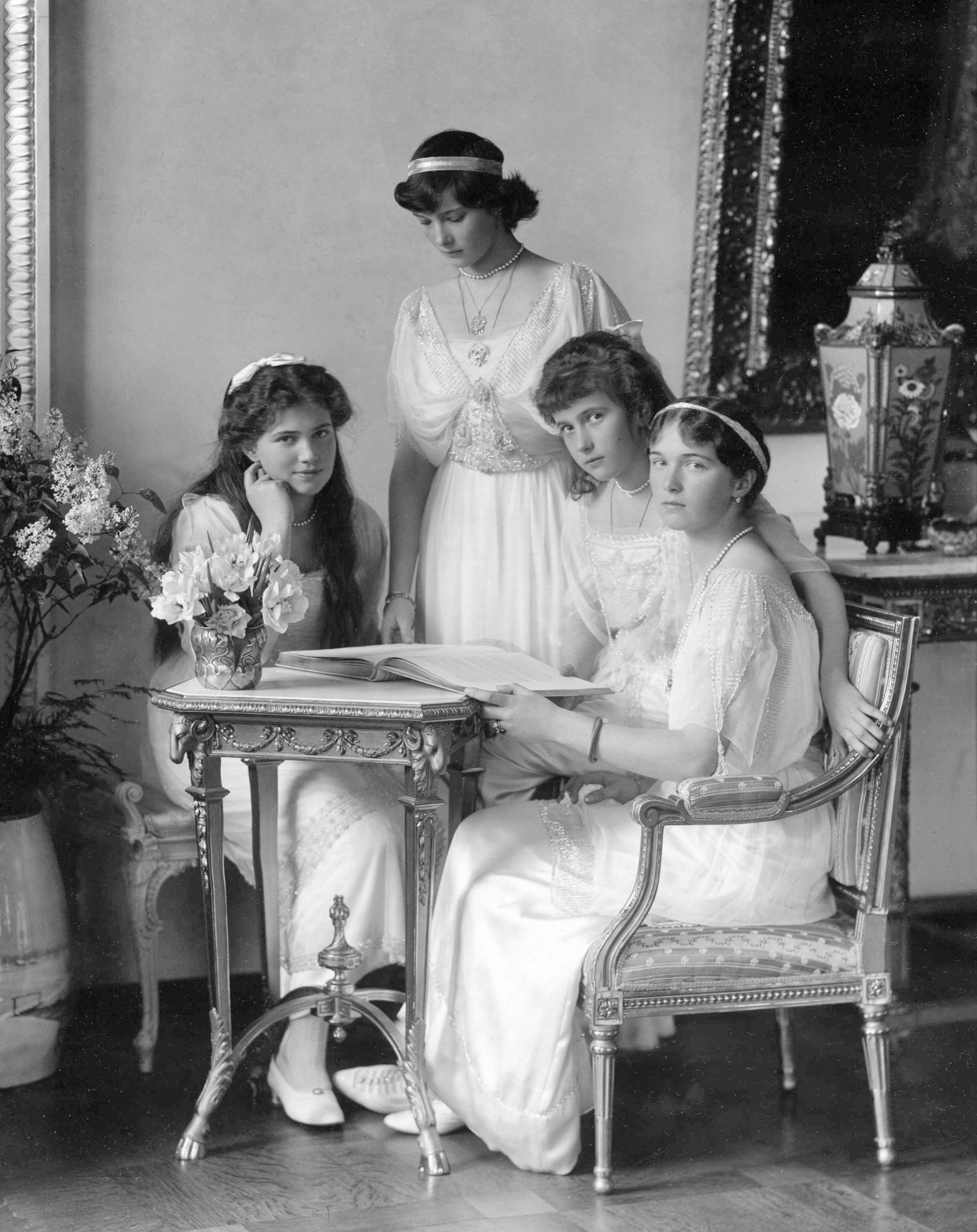 This formal portrait of Grand Duchesses (left to right) Maria, Tatiana, Anastasia and Olga Nikolaevna of Russia in 1914 is from . Because of its age, I think it's likely in the public domain.